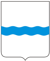 Coat of arms of Olyominsk